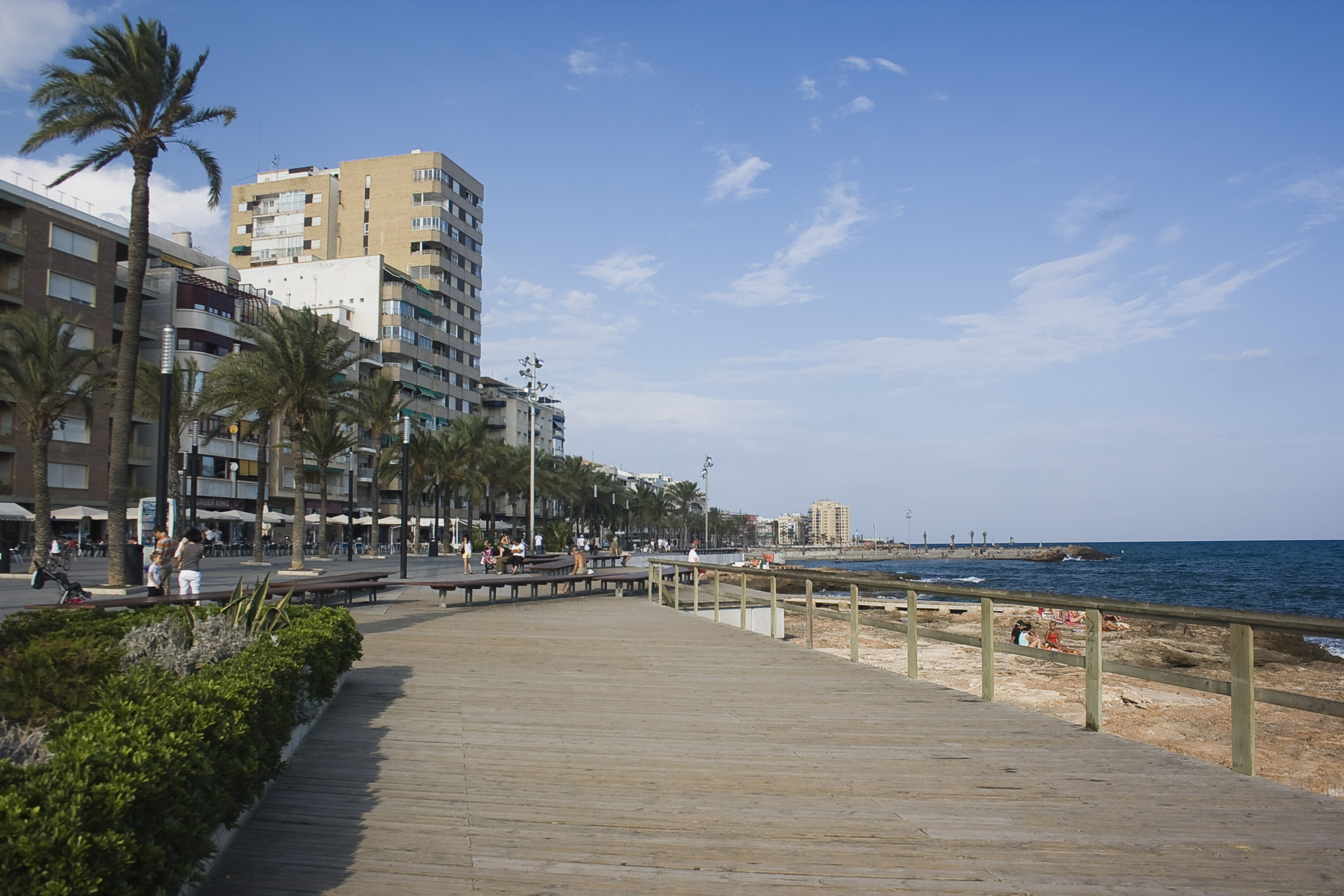 General view of the Juan Aparicio seafront, in Torrevieja, Alicante (Spain)